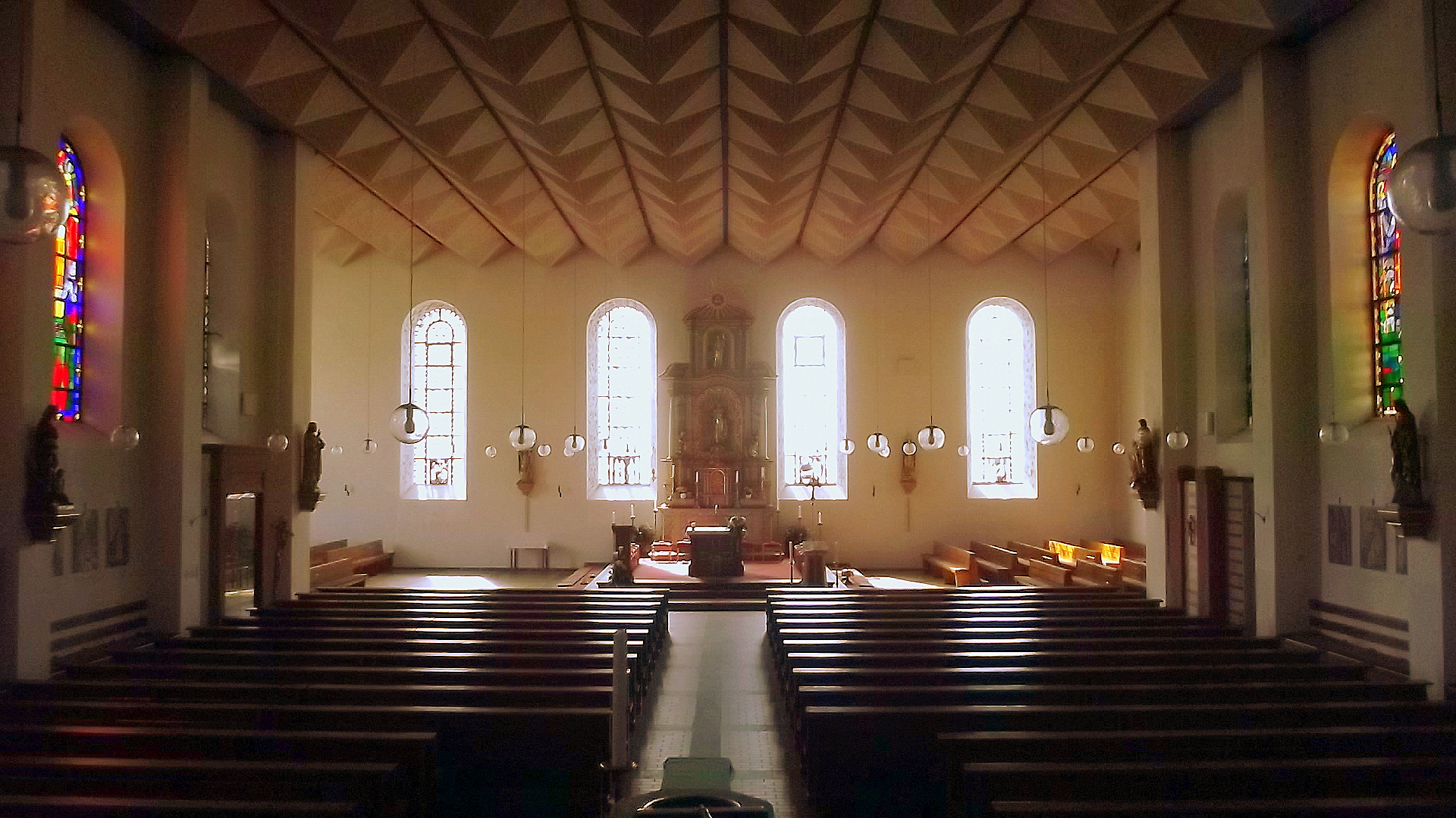 Interior of the roman catholic church in Orscholz, Saarland, Germany